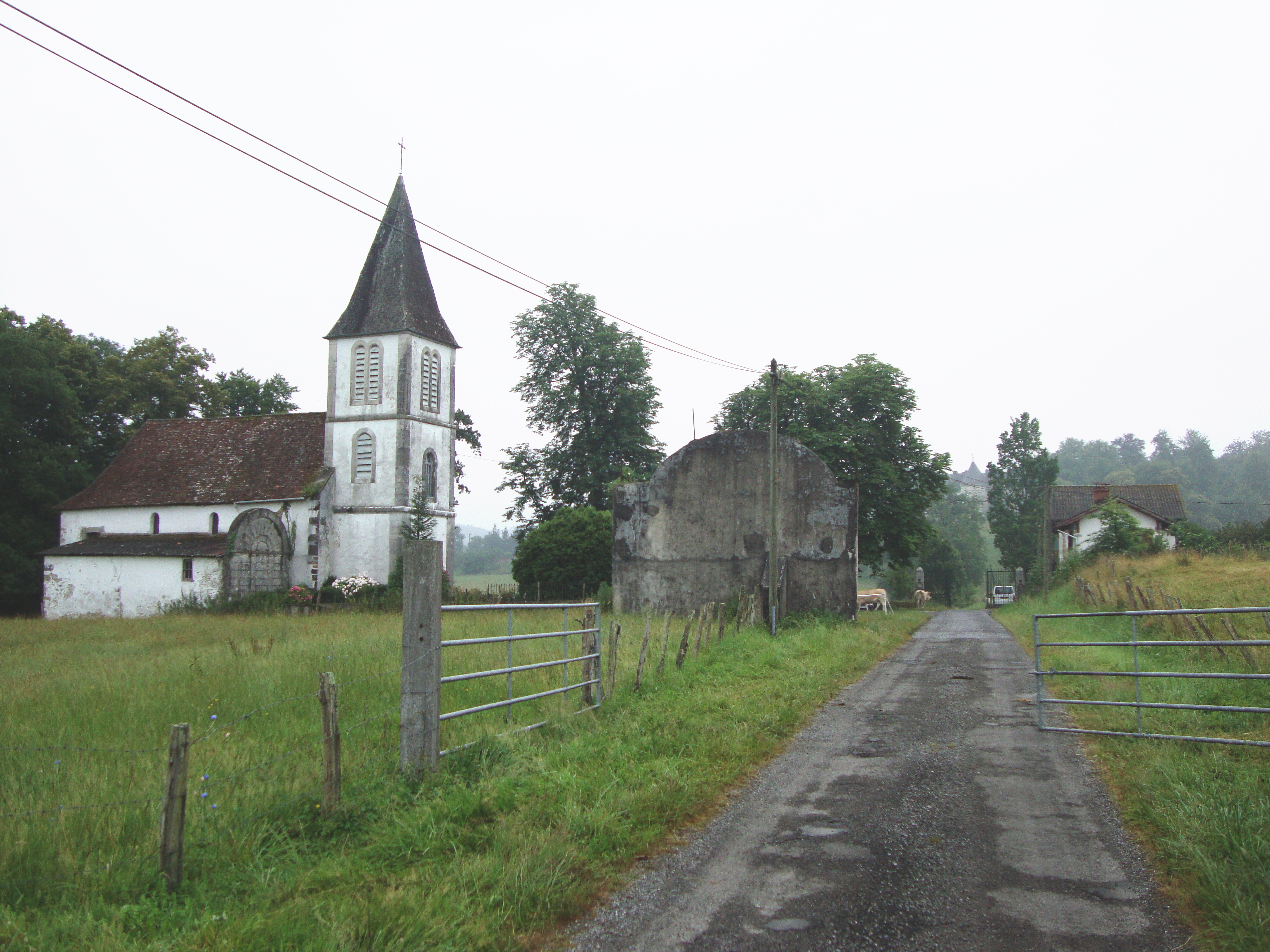 Ithorots (Aroue-Ithorots-Olhaïbe, Pyr-Atl,Fr) view of the village, with church and pelota court, in the background a glimpse of the castle.